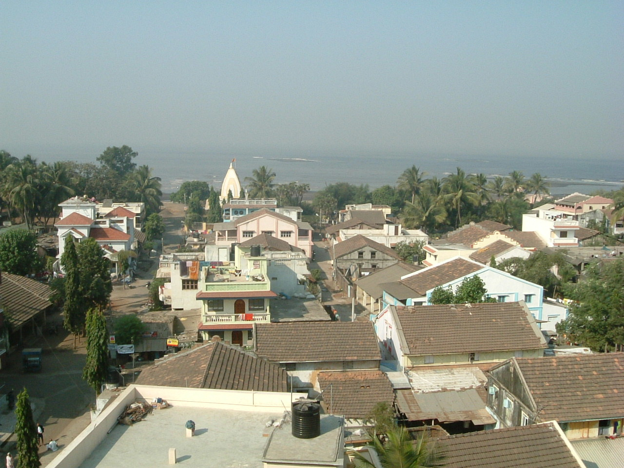 Daman, sea